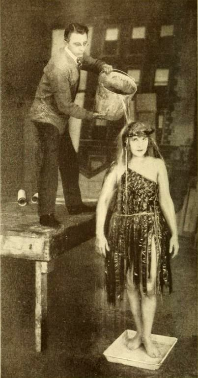 Director J. Searle Dawley giving Pearl White a shower for a scene where she dives off a ship in the American silent adventure film A Virgin Paradise (1921). On page 78 of the March 1921 Photoplay.